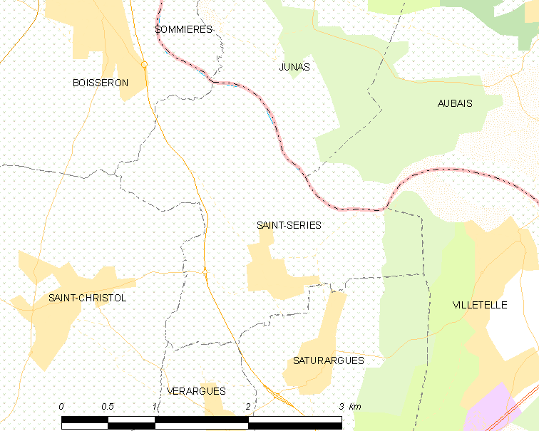 Map commune FR insee code 34288.png - Saint-Sériès